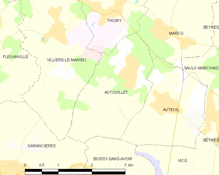 Map of French municipality Autouillet